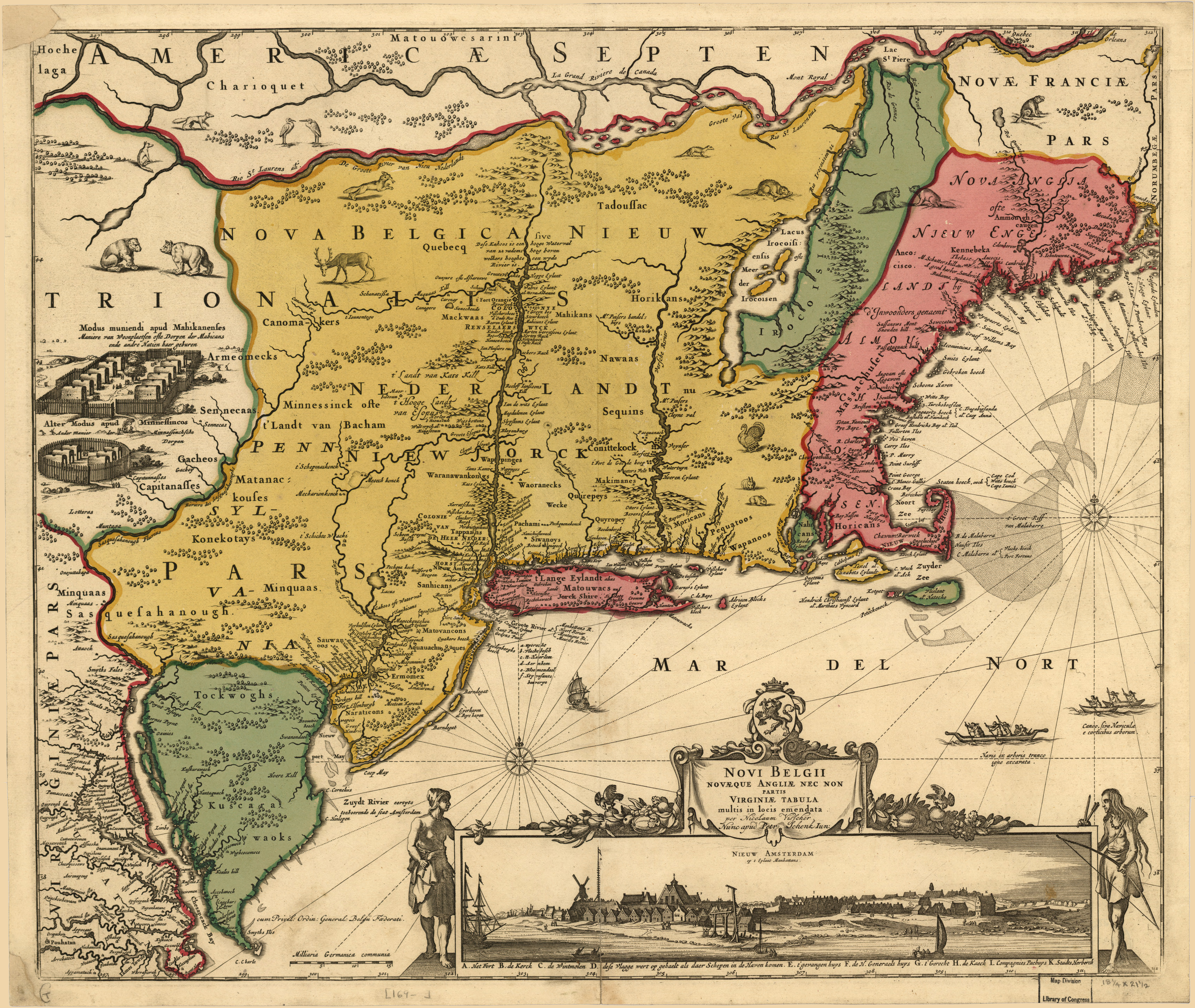 Stokes, Iconography, p. 147 (vol. 1), lists dates as 1651-55. See Map collectors circle, #24. Includes view "Nieuw Amsterdam op t eylant Manhattans." Scale: ca. 1:3,300,000 Nicolaes Visscher: Novi Belgii Novæque Angliæ: nec non partis Virginiæ tabula multis in locis emendata / per Nicolaum Visscher nunc apud Petr. Schenk Iun. (1685)